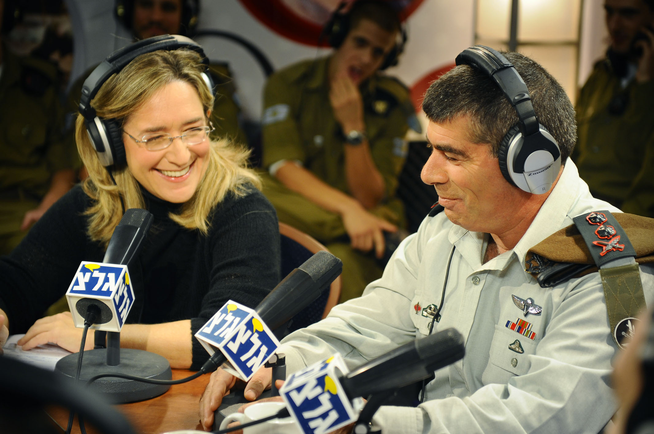 December 14, 2010. The Chief of the General Staff, Lt. Gen. Gabi Ashkenazi, launching the 2010 Shirutrom telethon, an annual day of fundraising on the Army Radio for the Association for the Wellbeing of Israel's Soldiers (AWIS). The theme this year was saluting the security forces, such as fire fighters, policemen, prison guards, and IDF soldiers. For more details see the IDF website. הרמטכ"ל, רב אלוף גבי אשכנזי, פתח הבוקר (ג') את משדר השירותרום שעמד השנה בסימן הצדעה למערך האש.